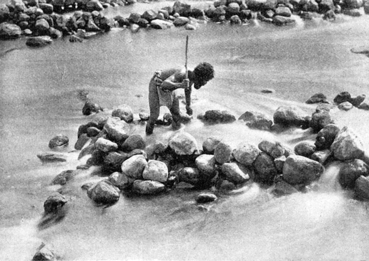 An indigenous Australian fisherman. An illustration to a Czech-language travelogue Obrazy z jižní polokoule ("Pictures from the Southern Hemisphere"), chapter I. Hostem u českobratrského misionáře ("As a guest of a Bohemian Brother missionary"). This picture (and others in the same article) were taken around Ramahyuck mission outside Stratford, Victoria. Alt version of File:Indigenous Australian Fisherman 1902 Korensky.jpg